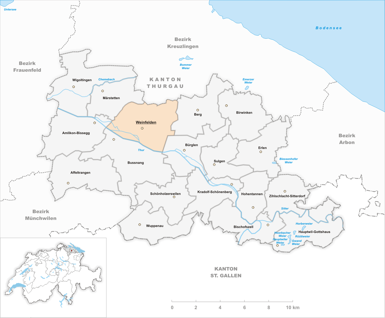 Municipality Weinfelden